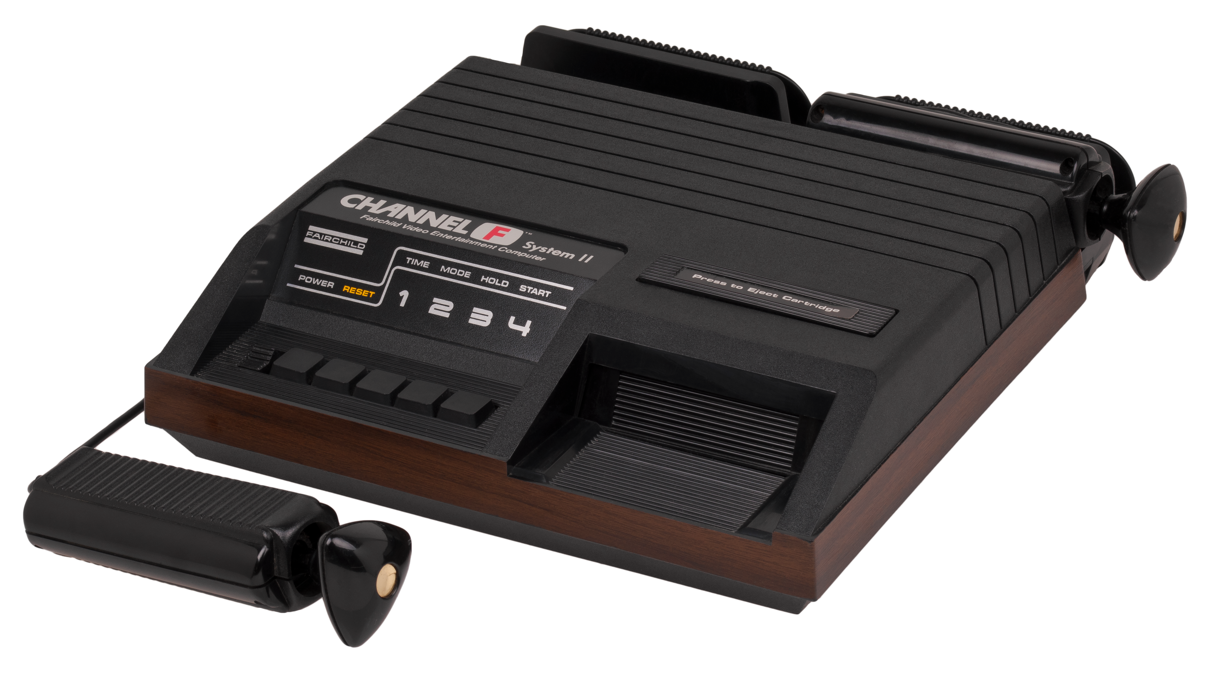 The Fairchild Channel F System II video game console. Released in 1979, it is a moderately improved version of the original Channel F.